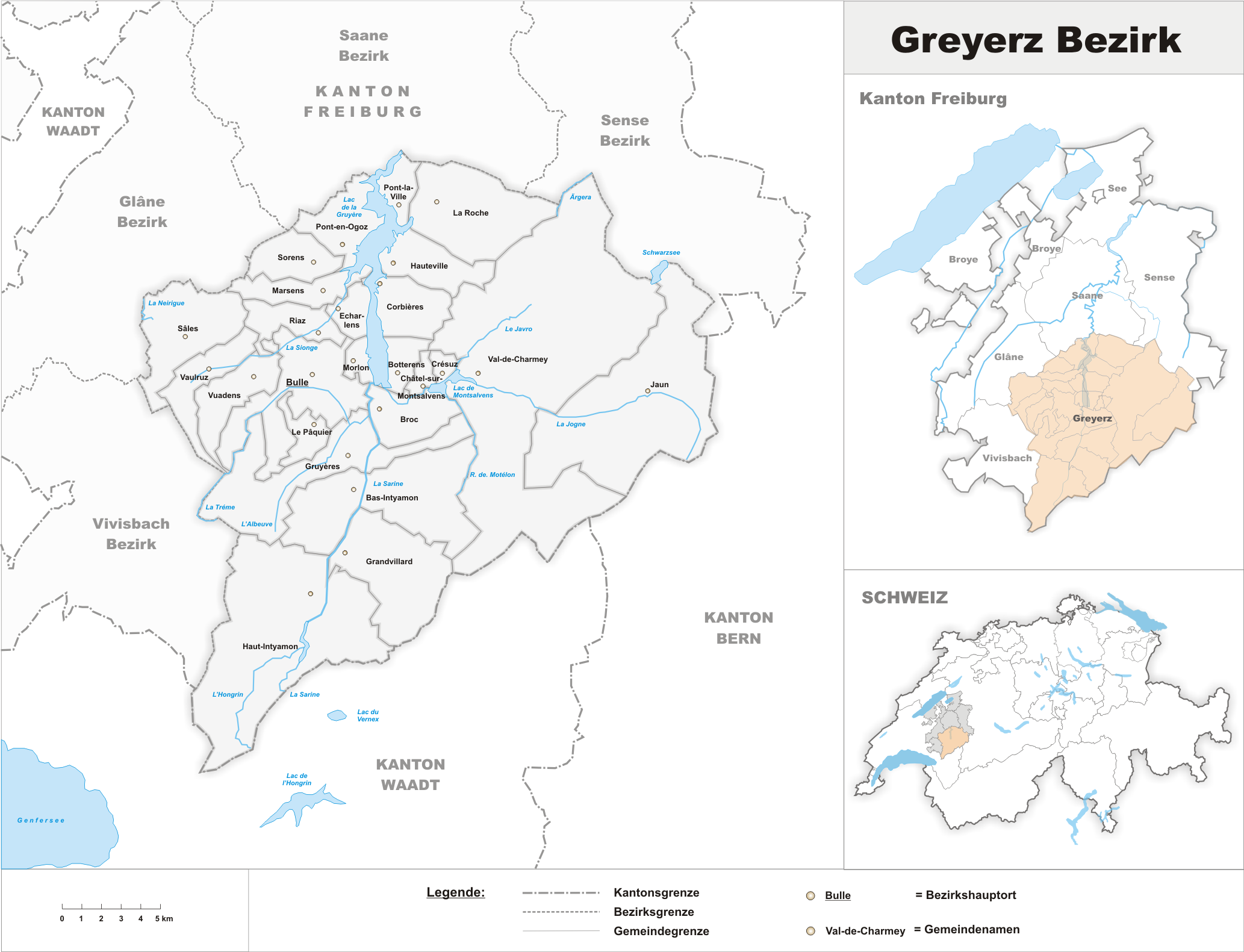 Municipality in the District of Greyerz